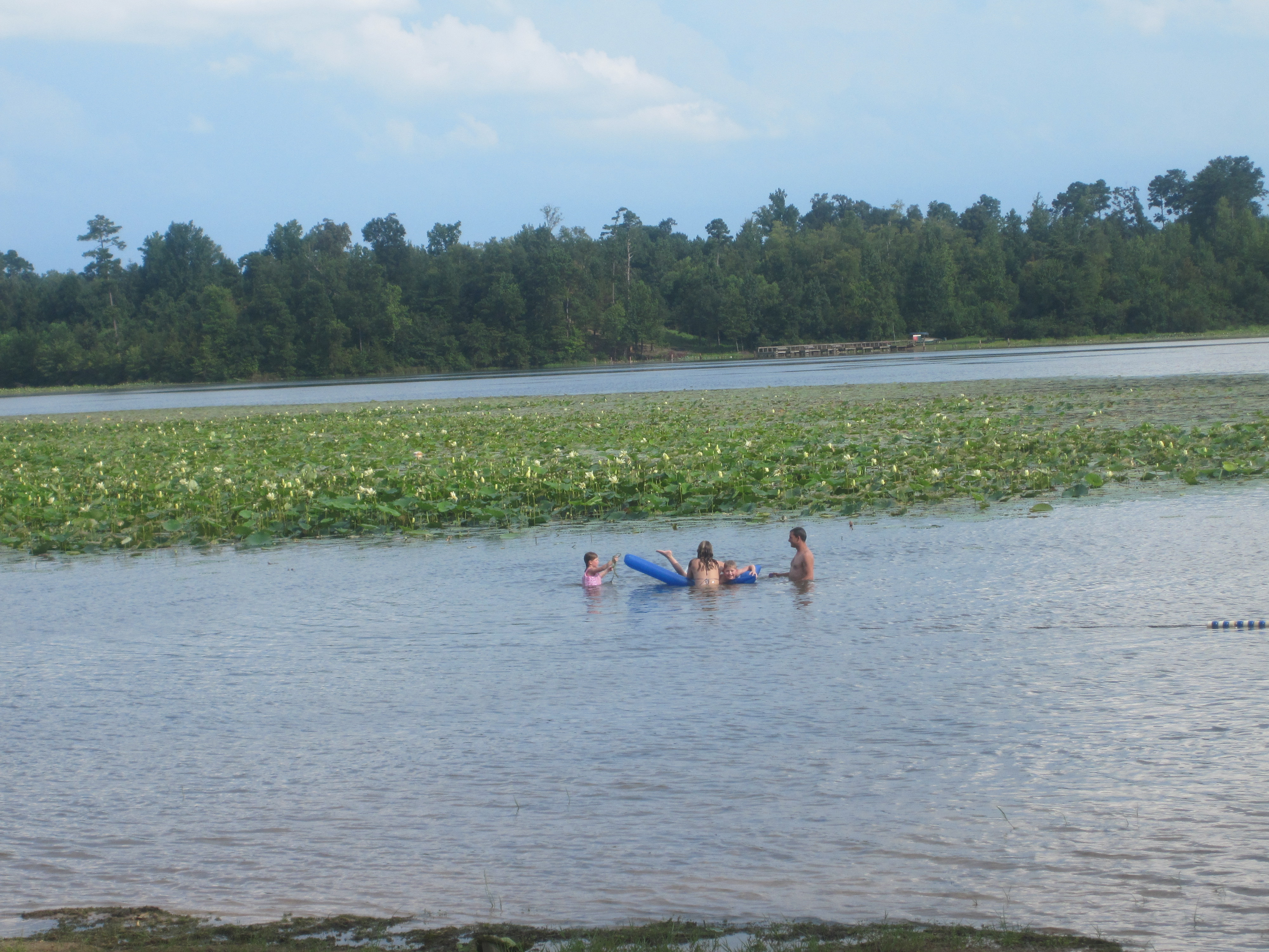 Nelumbo lutea at Caney Lakes, Minden, LA (Plant was dentified by user Le.Loup.Gris.)